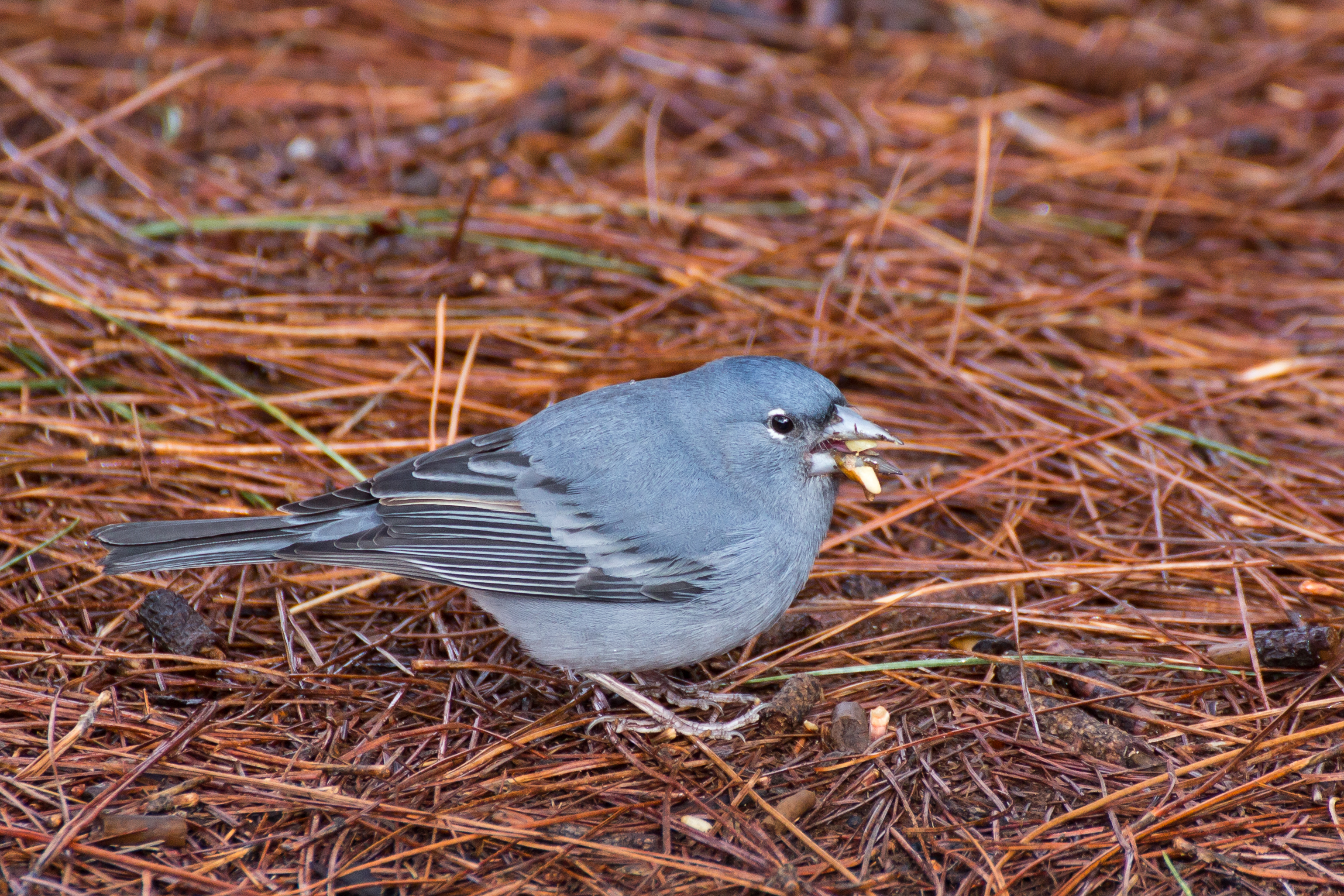 Male blue chaffinch (Fringilla teydea) eating seeds of Canary pine.